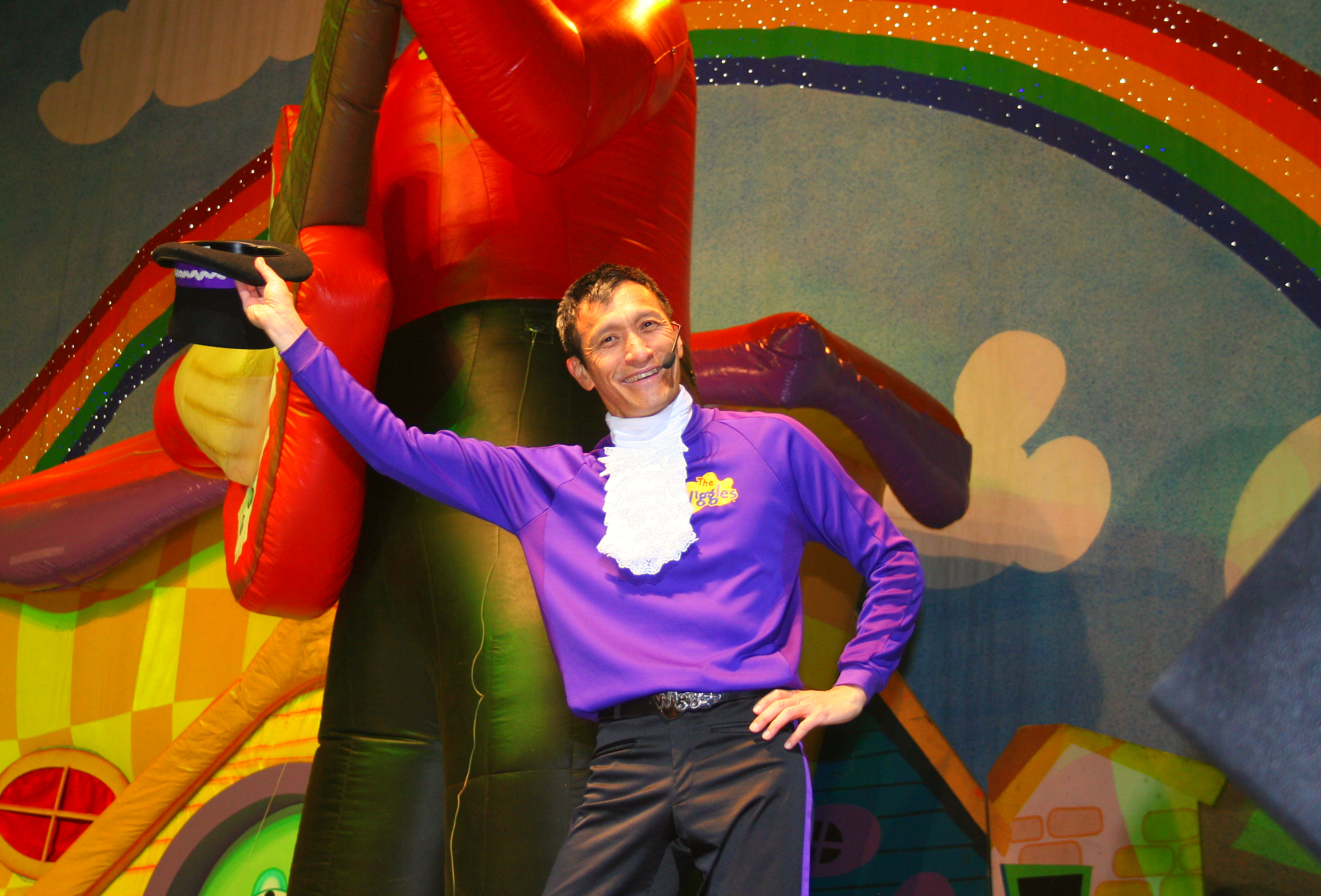 Jeff Fatt of The Wiggles Live @ the MCI Center - Nov. 8, 2007 Photo taken by Anthony Arambula